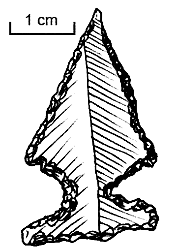 El Khiam point, Syria